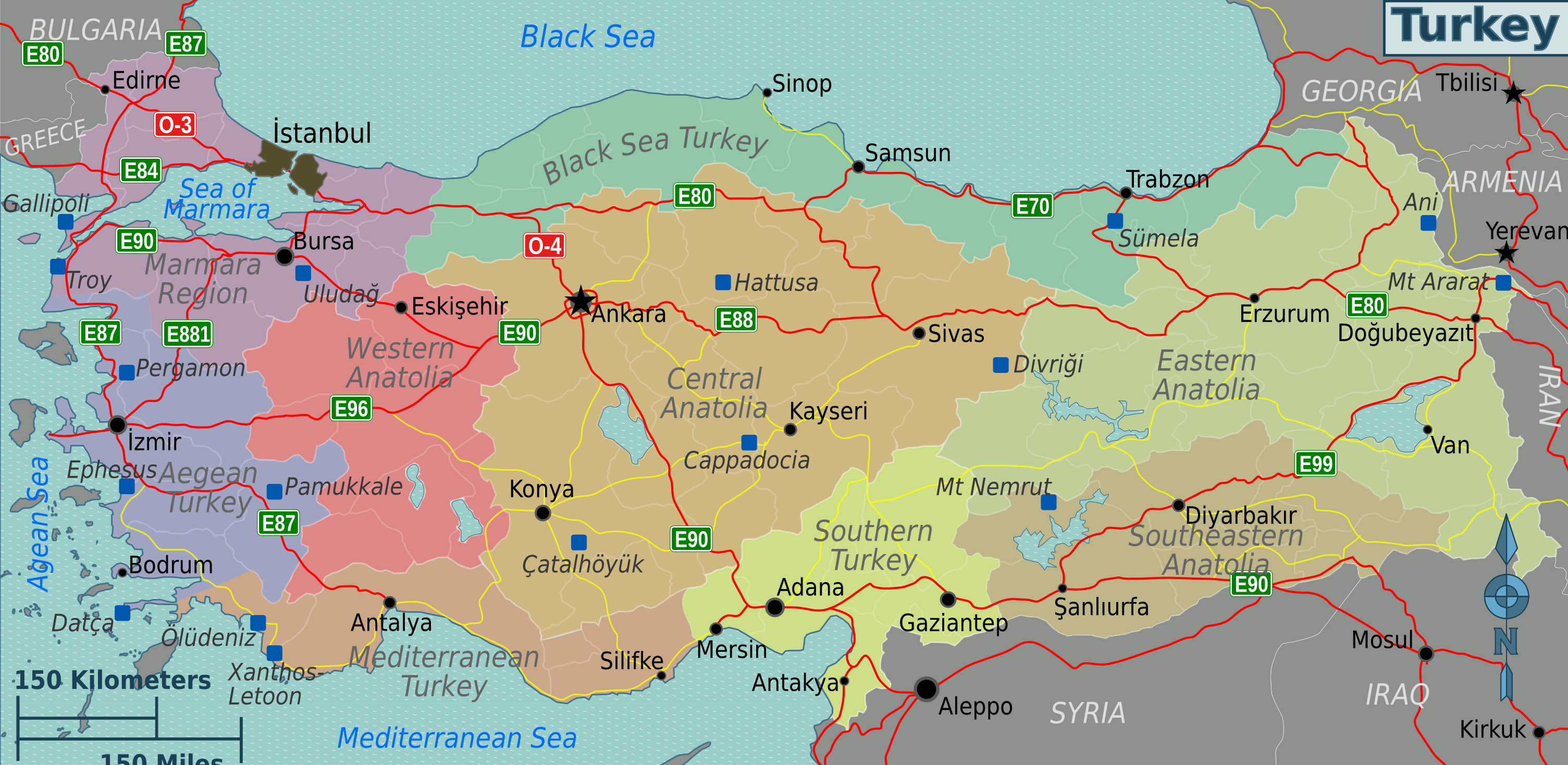 Updated Turkey regions map for use on Wikivoyage. PNG,based on multilingual SVG file.